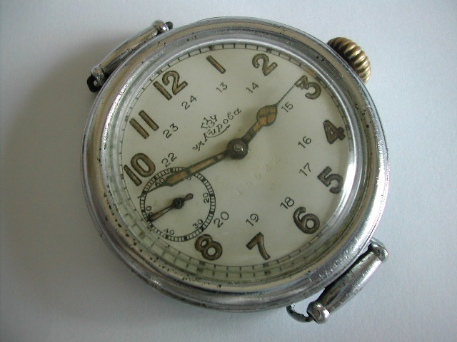 First State Watch Factory "Type 1" wristwatch